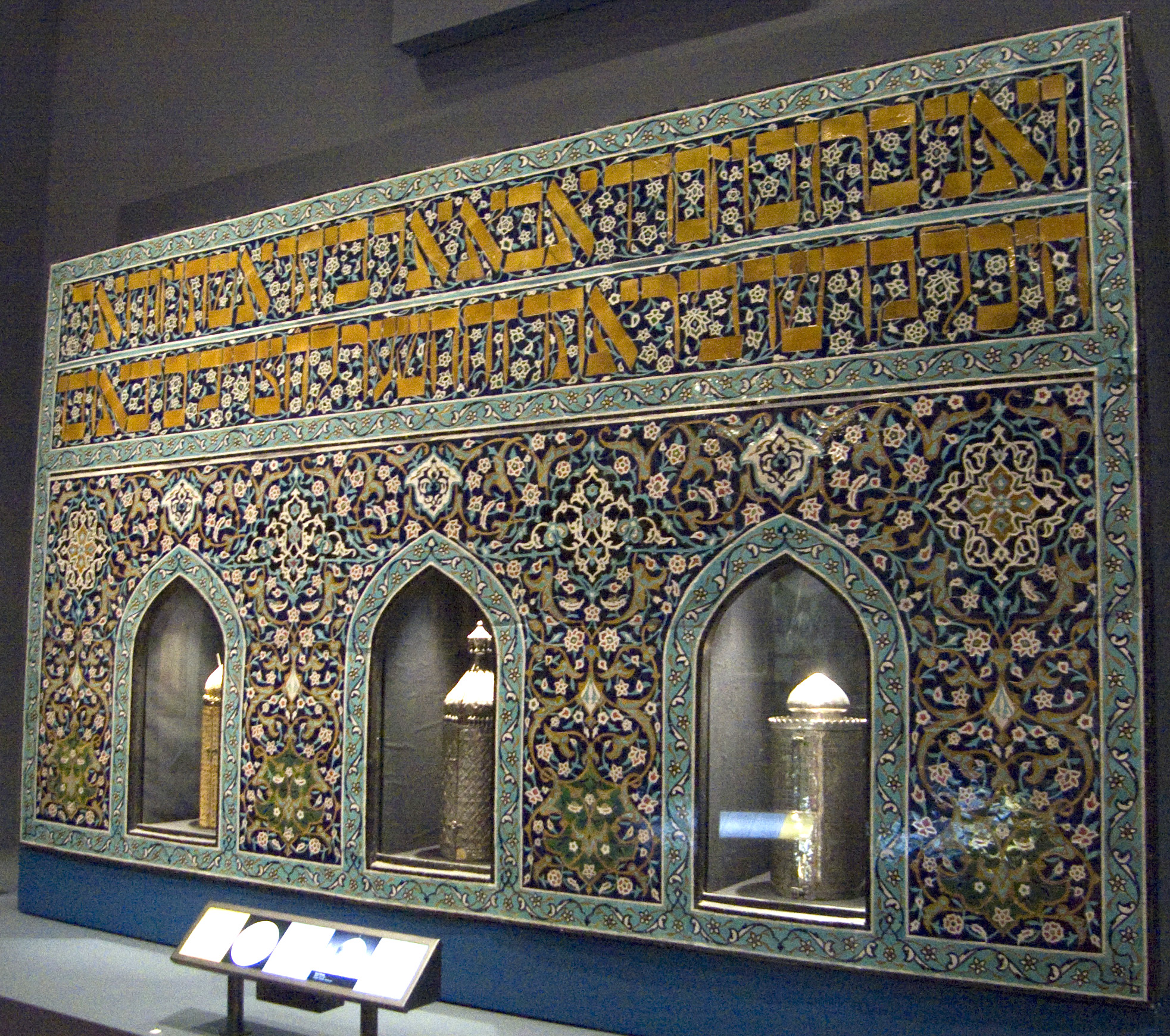 Portion of a Synagogue Wall Isfahan, Persia, 16th century Faience tile mosaic 104 1/2 x 181 x 4 1/2 in. (265.4 x 459.7 x 11.4 cm) The Jewish Museum, New York Gift of Adele and Harry G. Friedman, Lucy and Henry Moses, Miriam Schaar Schloesinger, Florence Sutro Anspacher, Lucille and Samuel Lemberg, John S. and Florence Lawrence, Louis A. Oresman, and Khalil Rabenou, F 5000 Wikipedia Loves Art at the Jewish Museum (New York City) This photo of item # F-5000 at the Jewish Museum (New York City) was contributed under the team name "The_Grotto" as part of the Wikipedia Loves Art project in February 2009. Jewish Museum (New York City) The original photograph on Flickr was taken by cjn212—please add a comment to the original Flickr page whenever a use has been made on Wikipedia or another project. Project galleries on Flickr: this institution, this team